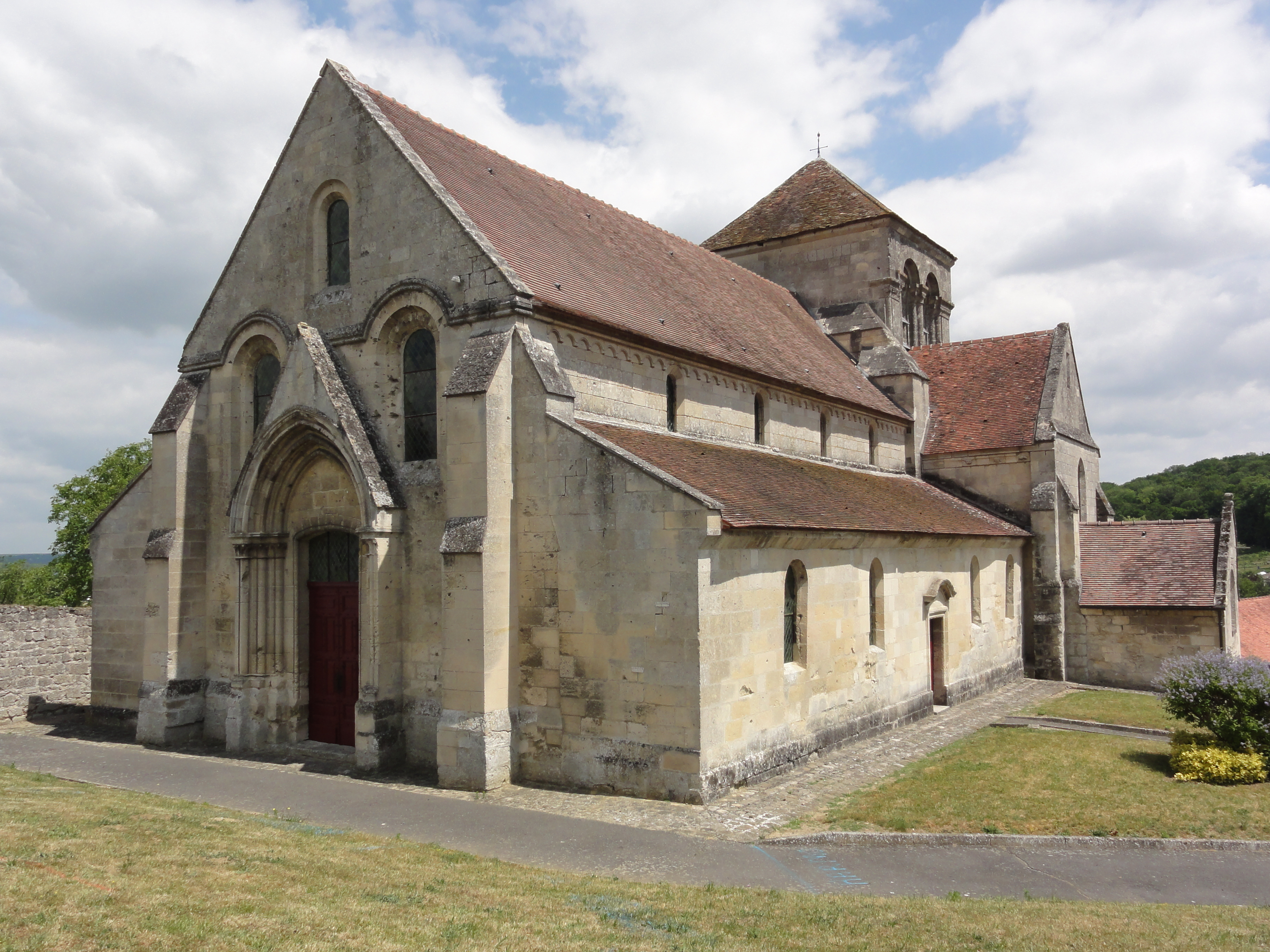 Église Saint-Léger de Pernant (Aisne)